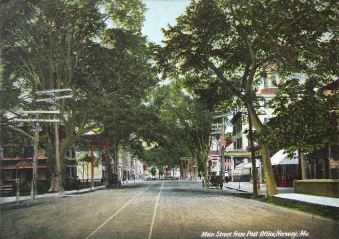 Main Street from Post Office, Norway, Maine. At right is Beal's Hotel.